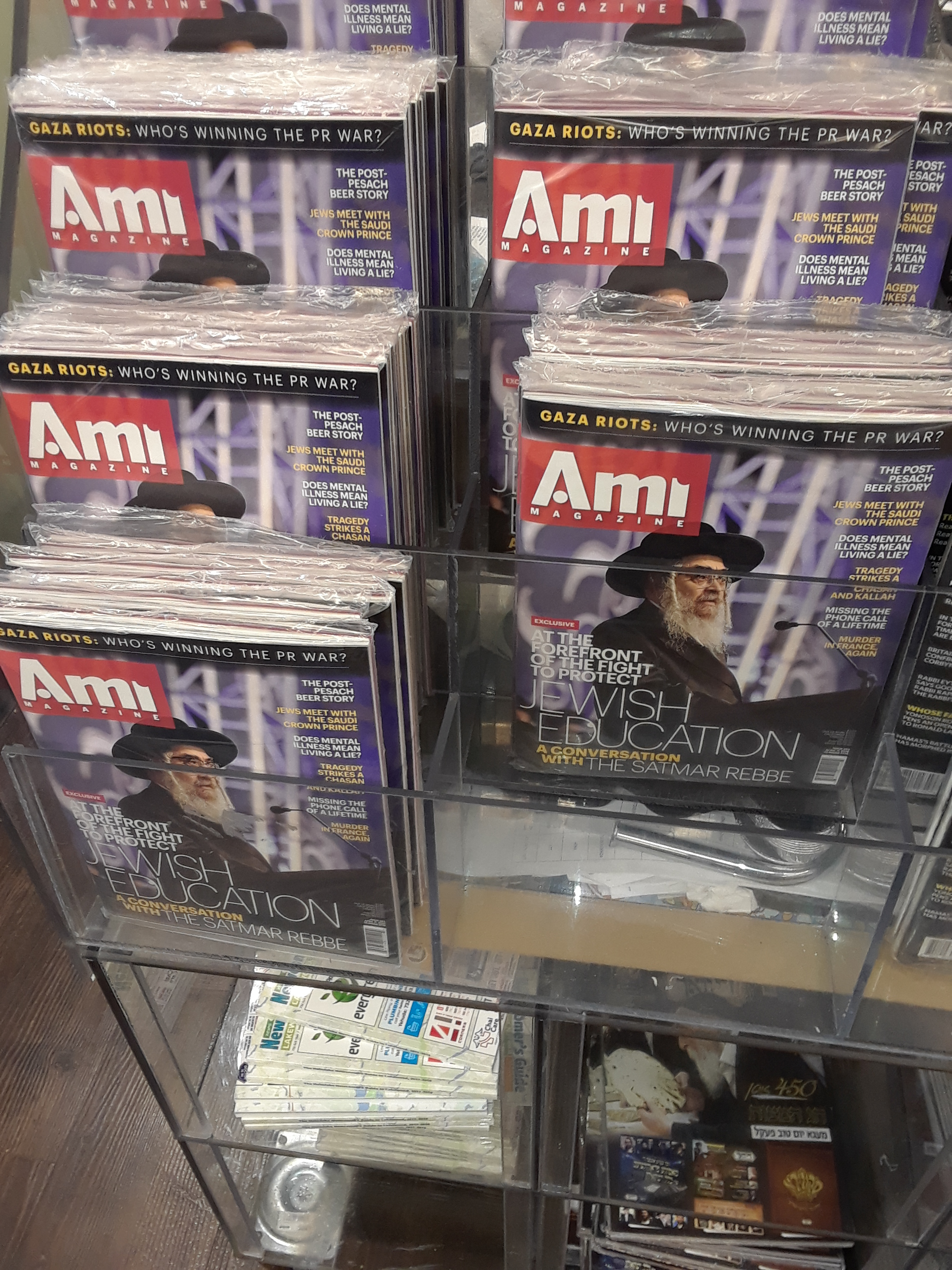 Ami magazine with Satmar Grand Rabbi Ahron Teitelbaum on cover